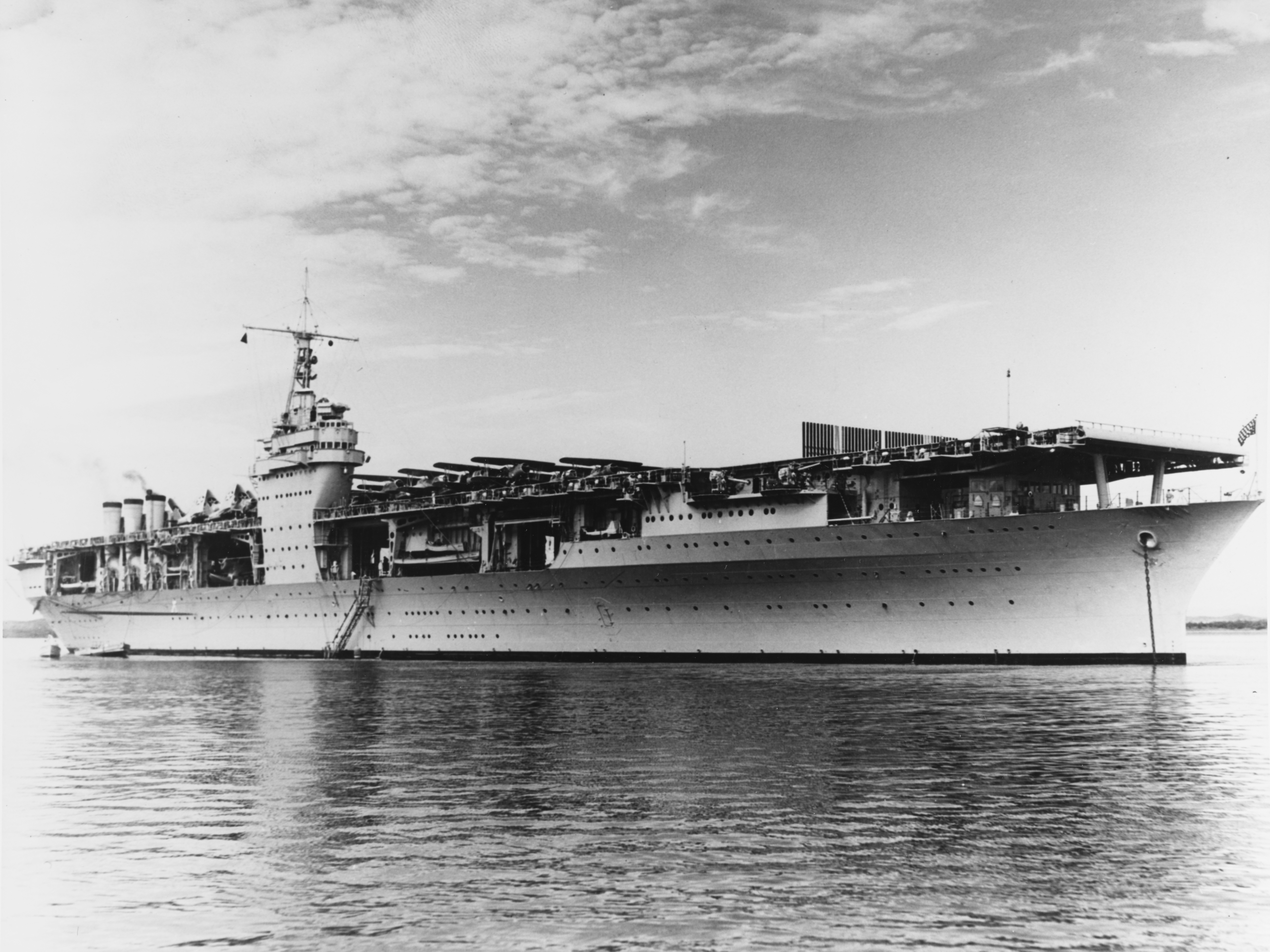 The U.S. Navy aircraft carrier USS Ranger (CV-4) anchored in Guantanamo Bay, Cuba, on 10 November 1939.